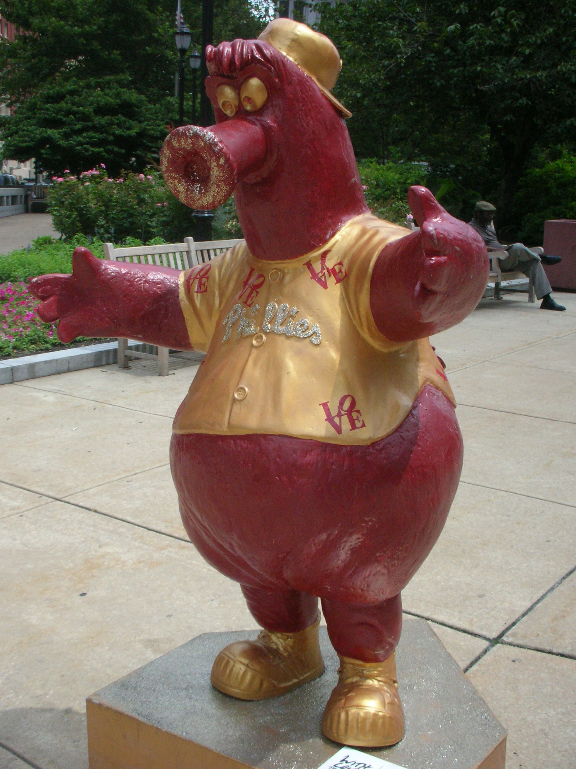 Phillie Phanatic, official mascot of the baseball team of Philadelphia, United States